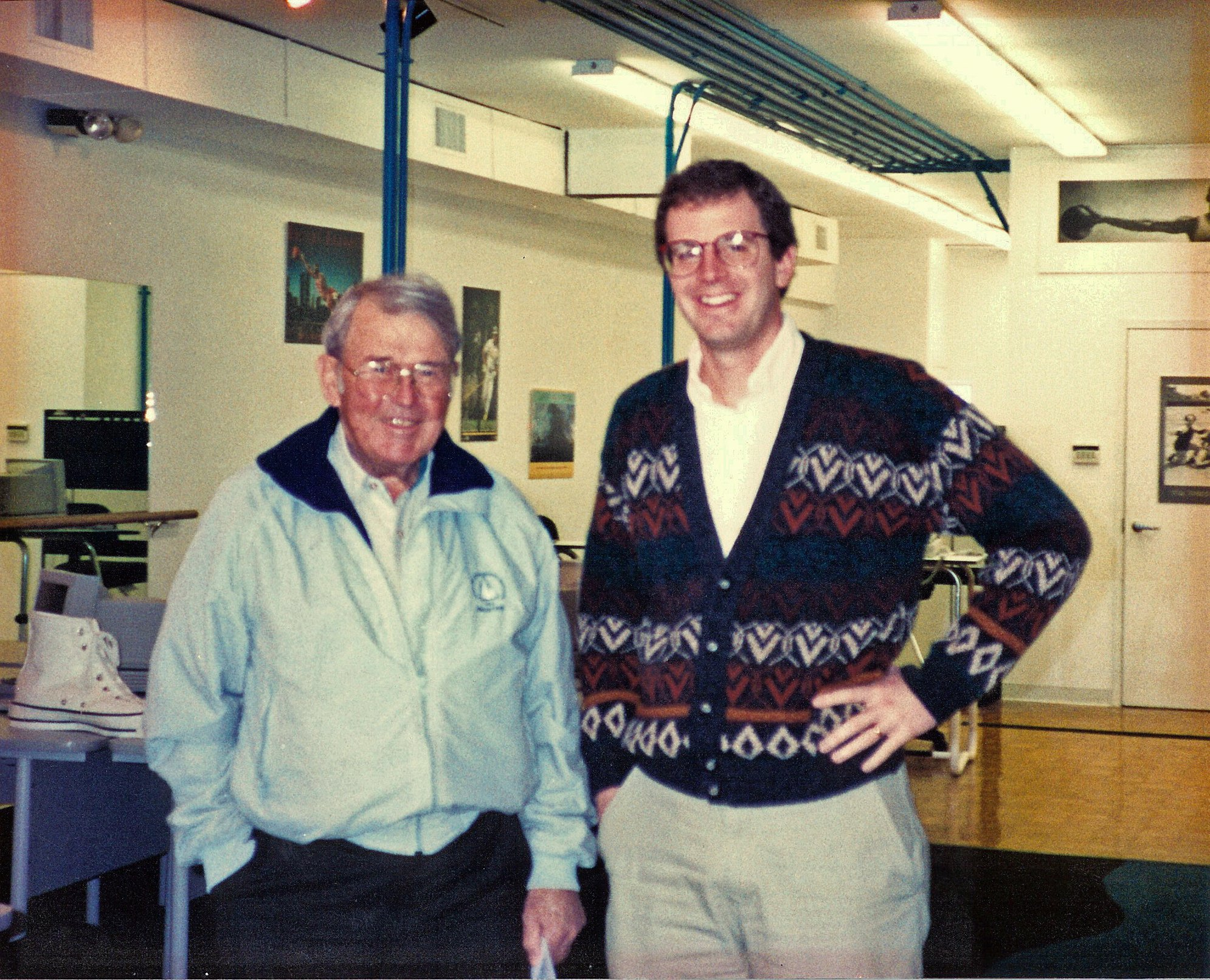 Image from English Wikipedia. Summary: William Hewlett, co-founder of Hewlett-Packard, on the left, Alan Tripp.